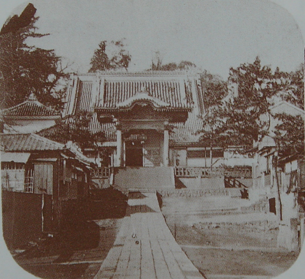 US Legation in Japan, ZenpukuJi Temple, circa 1861